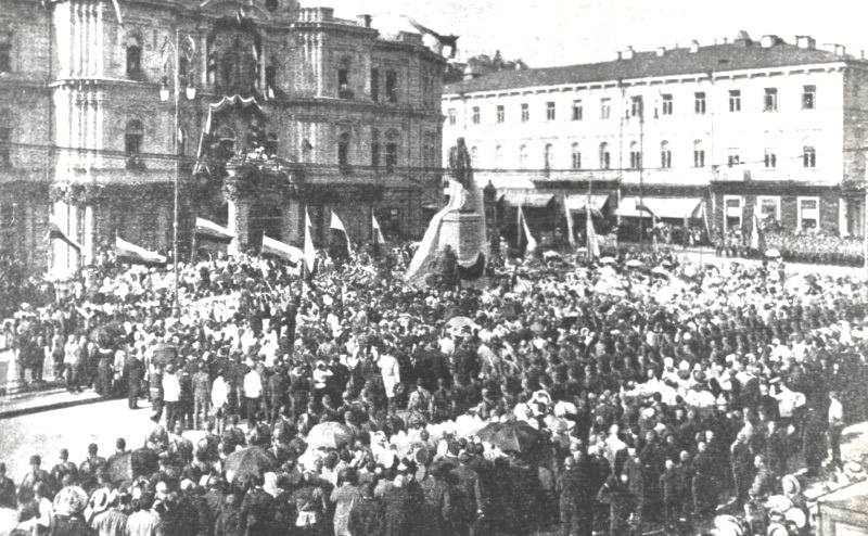 The opening ceremony of the Stolypin monument in Kiev in 1913